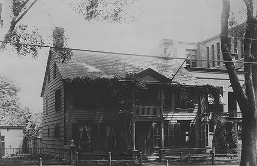 View of the exterior of the Elihu Senior Society, Yale University, New Haven, Connecticut. Circa 1910–1915. Courtesy of the Yale University Manuscripts and Archives. Retouched by Marmaduke Percy